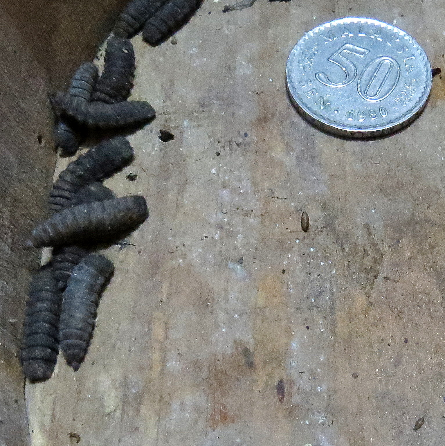 Black Soldier Fly larvae compared with 30mm coin.